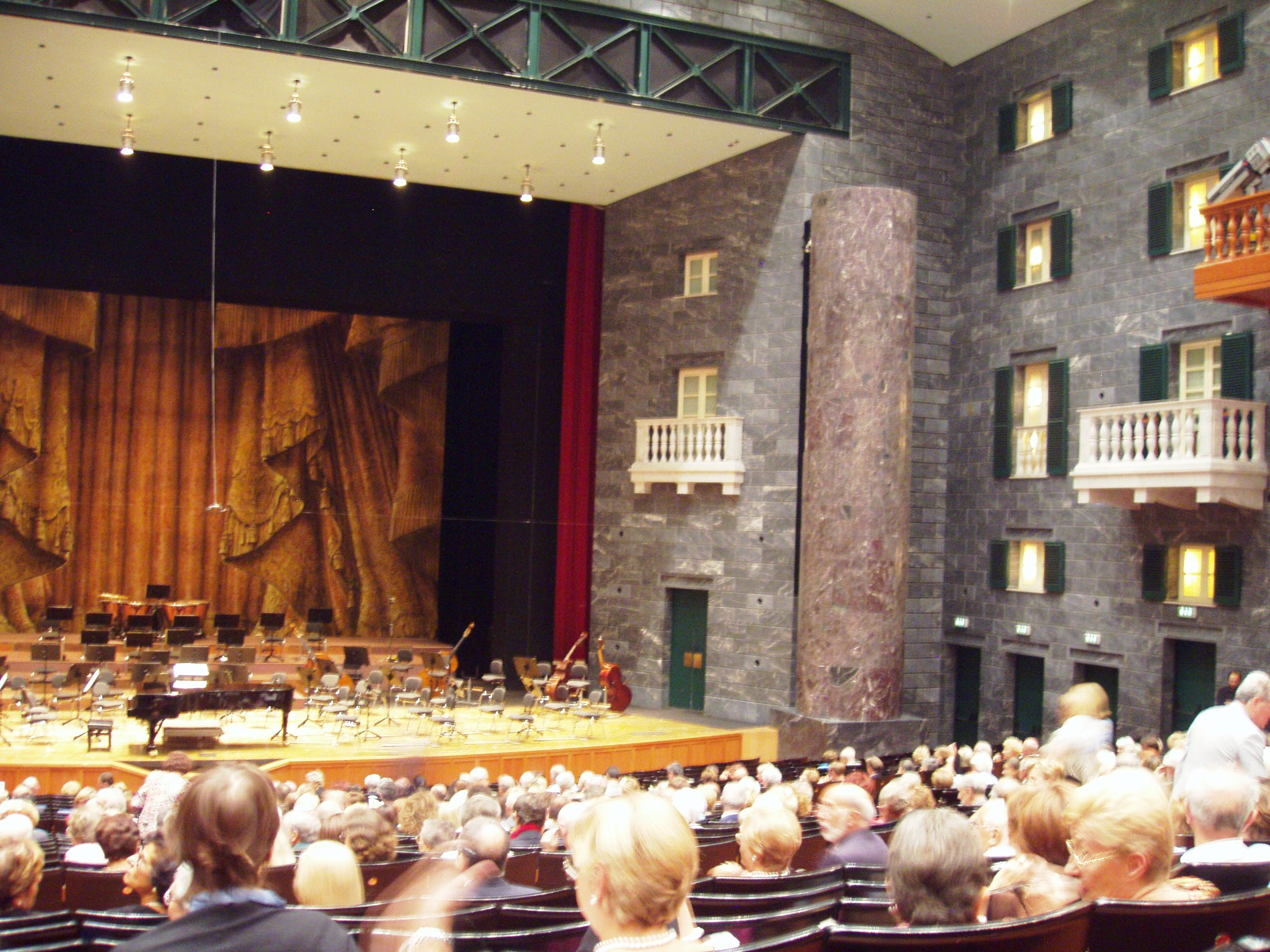 Teatro Carlo Felice - Genoa, Italy. Interior of main concert hall.